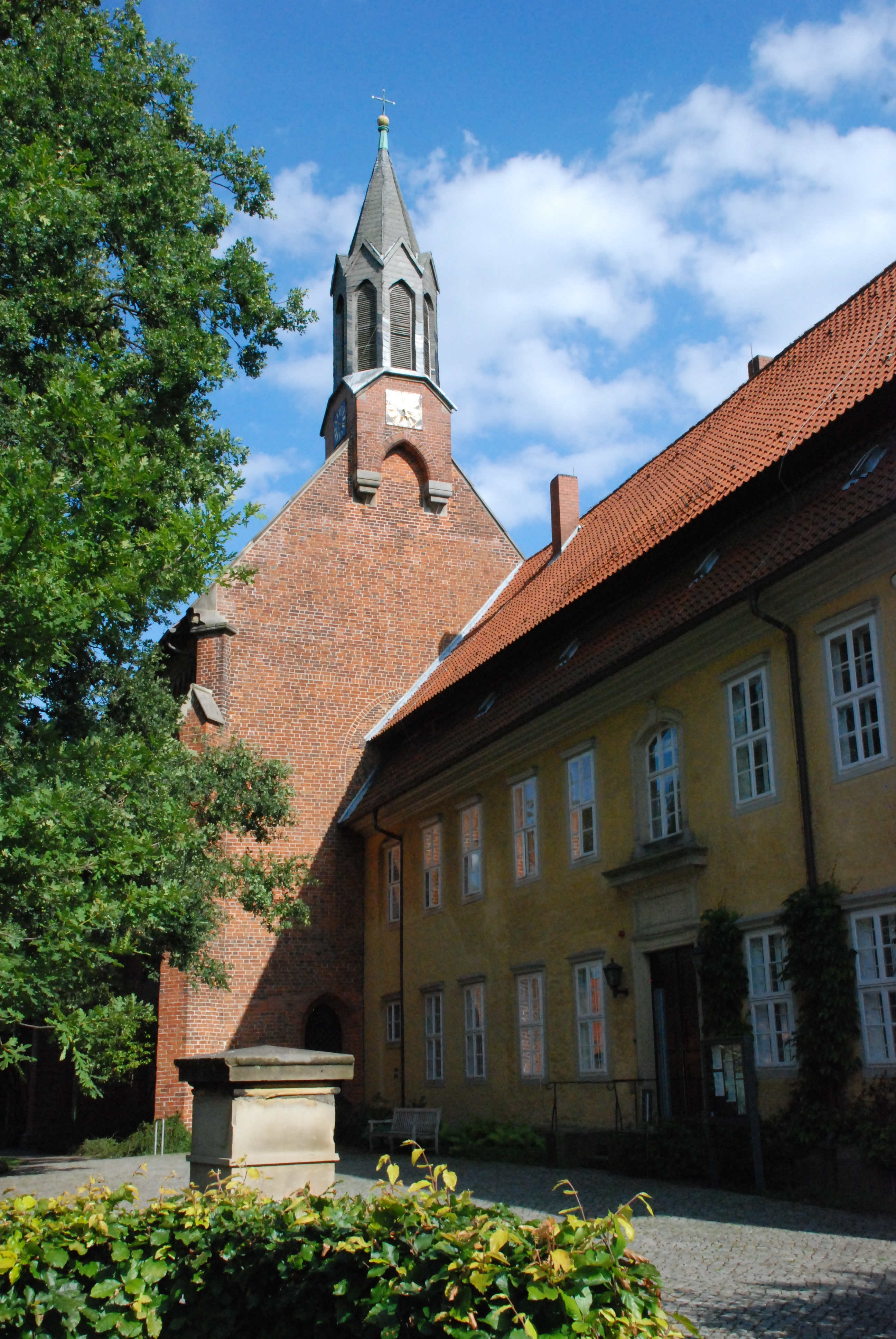 Entrance and church of Kloster Mariensee, Lower Saxony, Germany